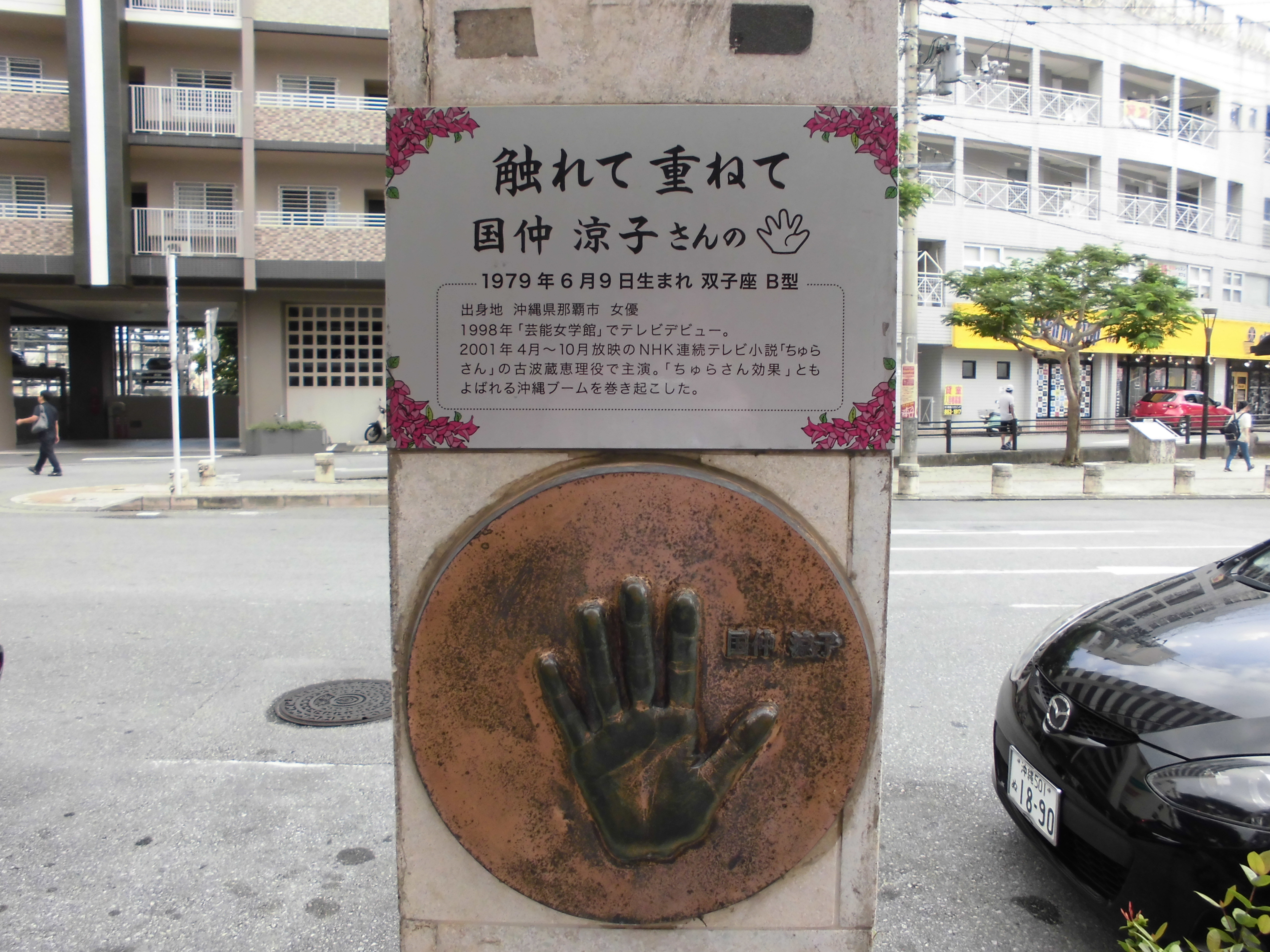 Handprint of Ryōko Kuninaka, an actress from Okinawa Prefecture, Japan. Photo taken in Naha City, Okinawa Prefecture, Japan.